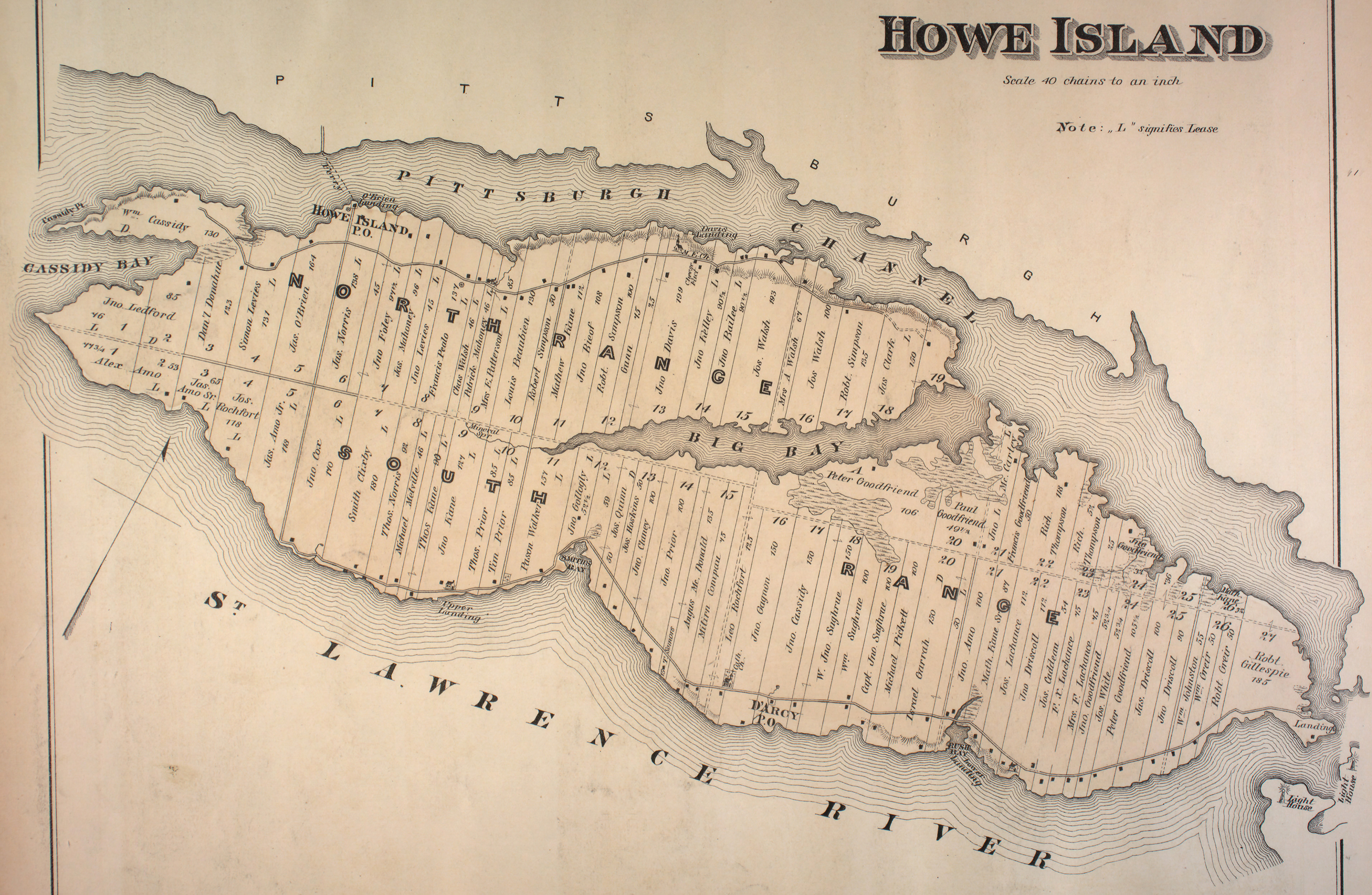 1878 map of Howe Island, Ontario, Canada, from "Frontenac, Lennox and Addington Counties." Illustrated historical atlas of the counties of Frontenac, Lennox and Addington, Ontario. Toronto : J.H. Meacham & Co., 1878.